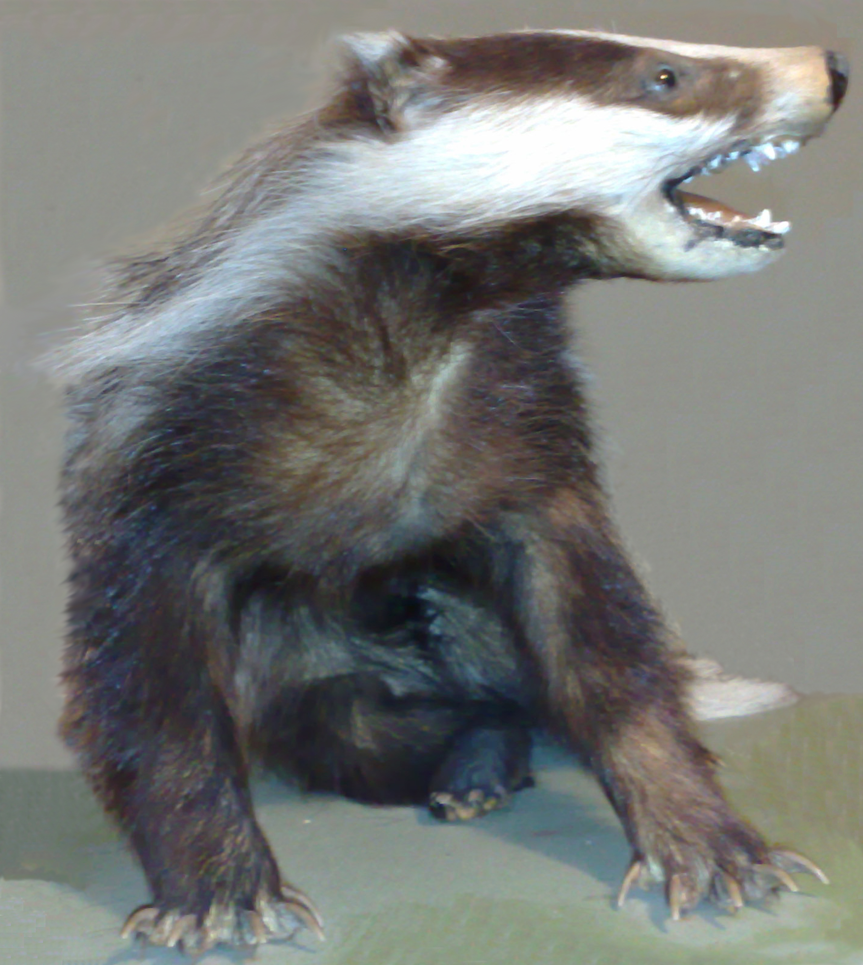 A stuffed badger (Meles meles).